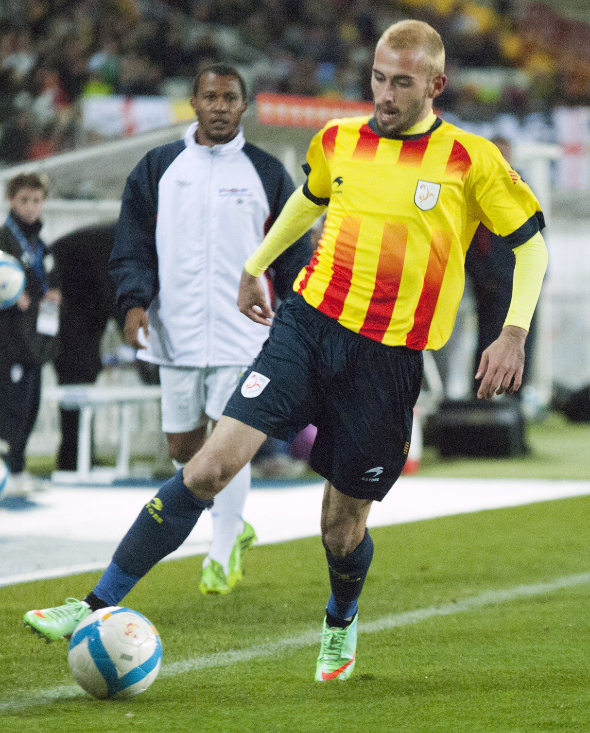 Spanish football player Aleix Vidal during friendly match Catalonia vs. Cape Verde